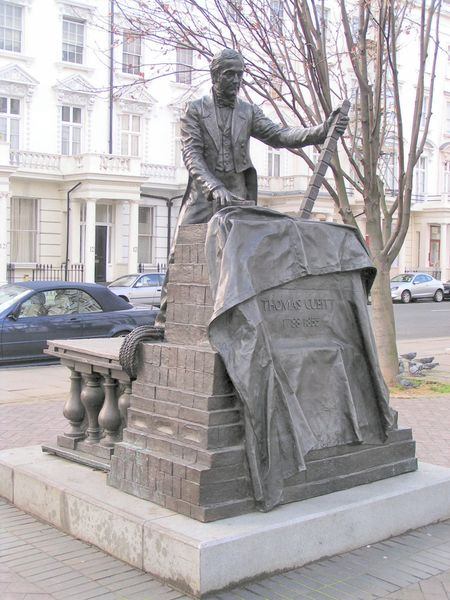 Estátua de Thomas Cubitt, por William Fawke, 1995, em Denbigh Street, Londres.